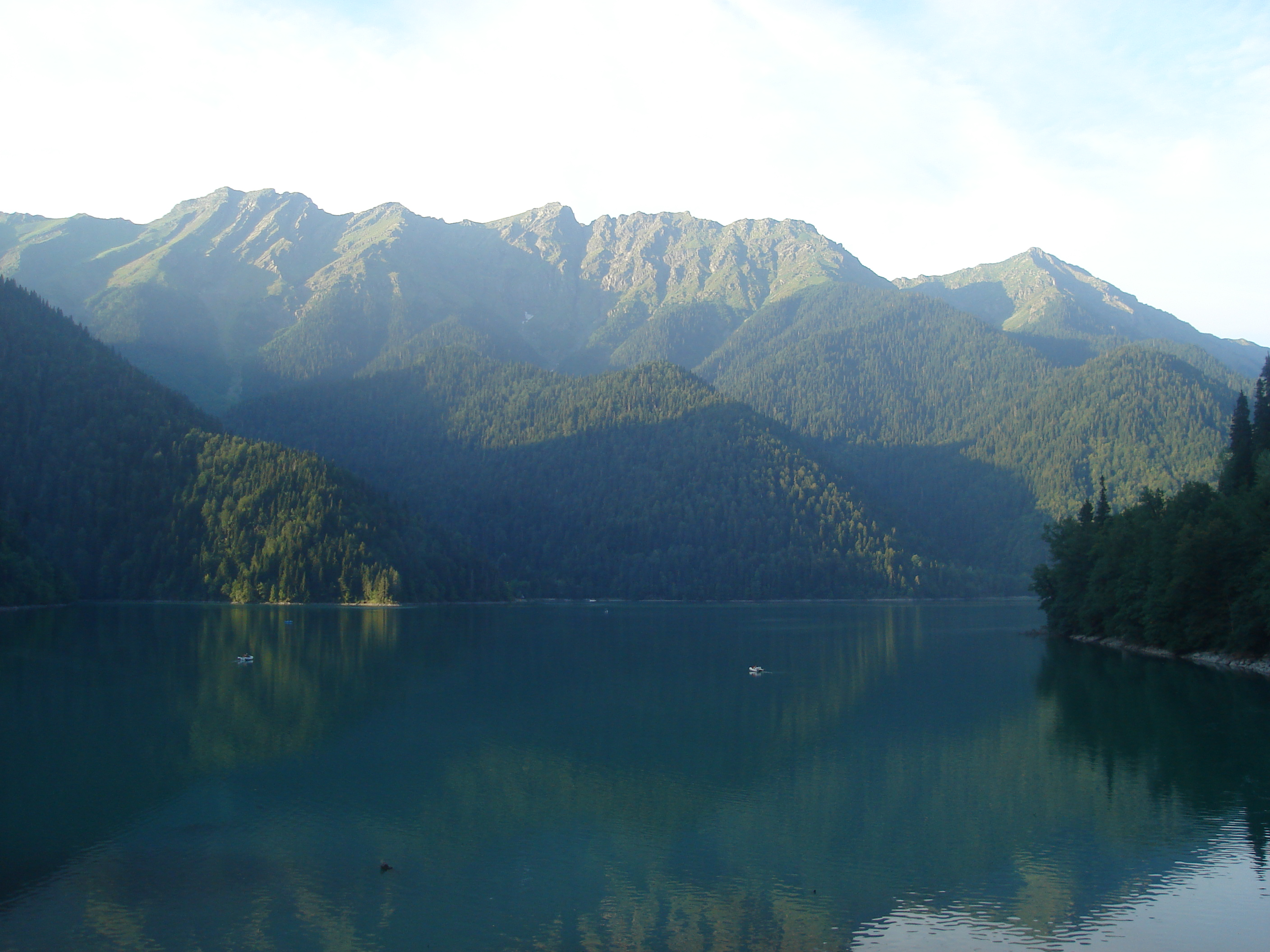 Picture of Lake Ritsa in Abkhazia, Georgia.